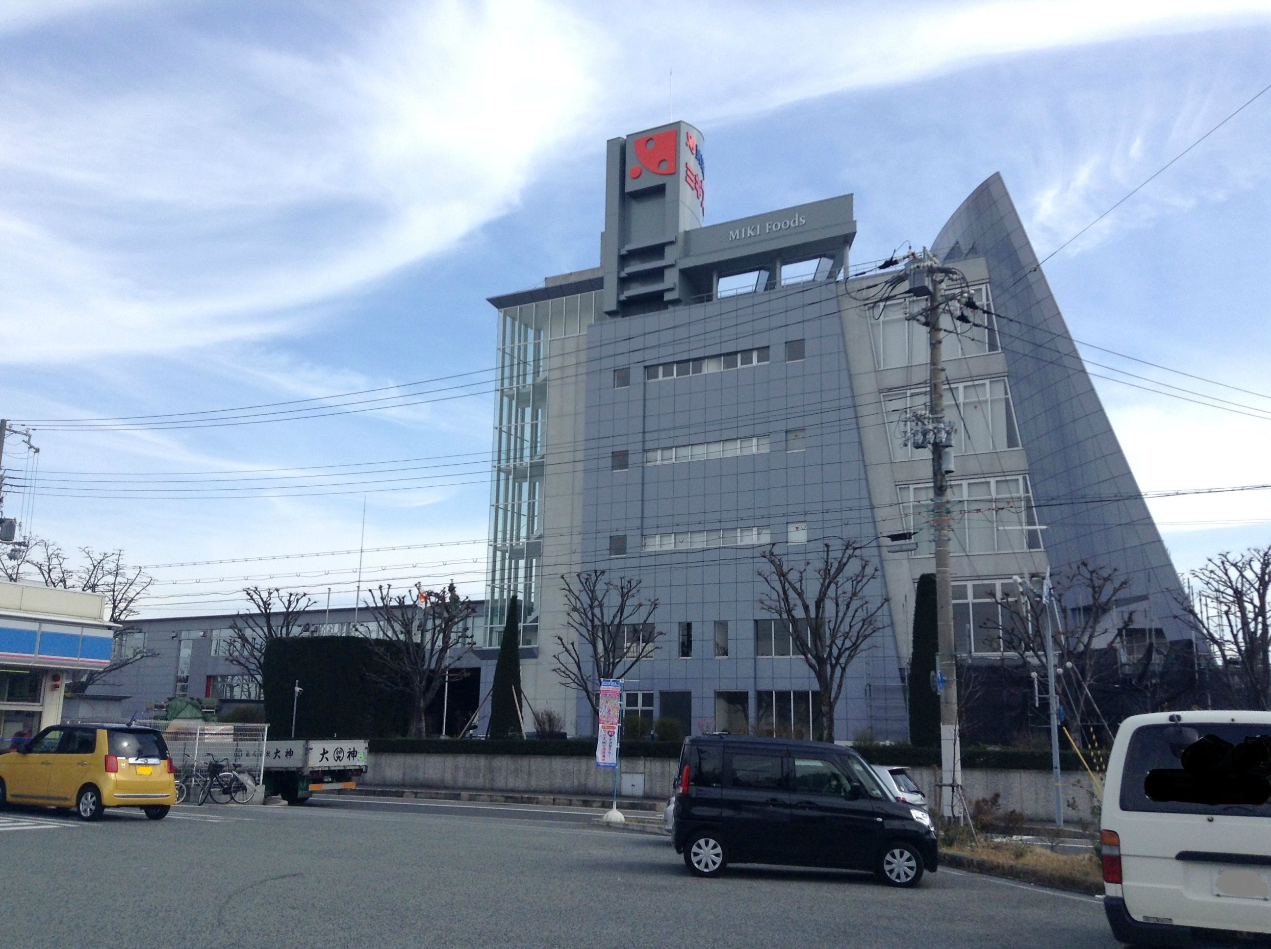 Miki-Corp.Nishinomiya-factory